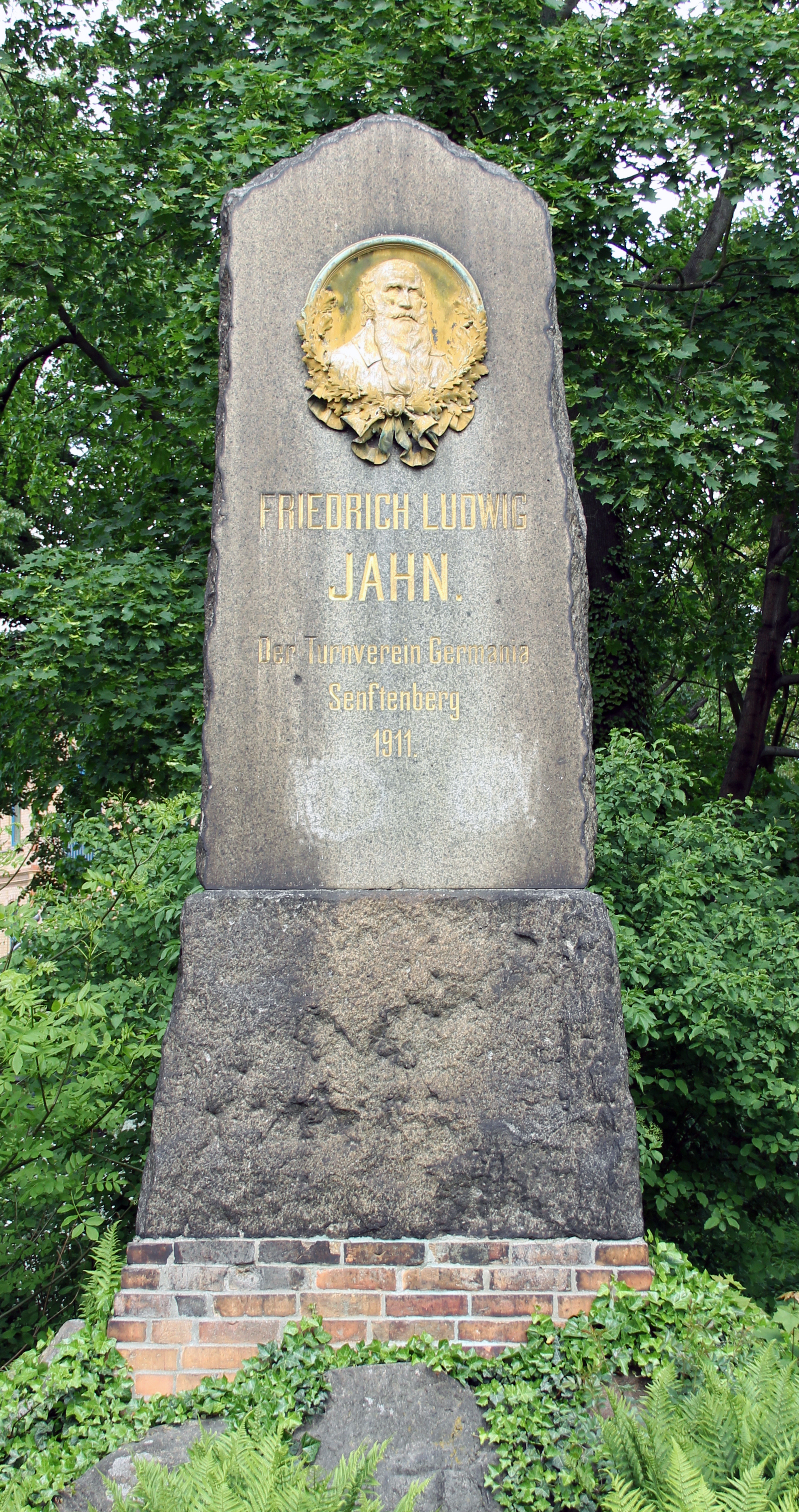 Memorial stone, Friedrich Ludwig Jahn, Schlosspark Senftenberg, Senftenberg, Germany